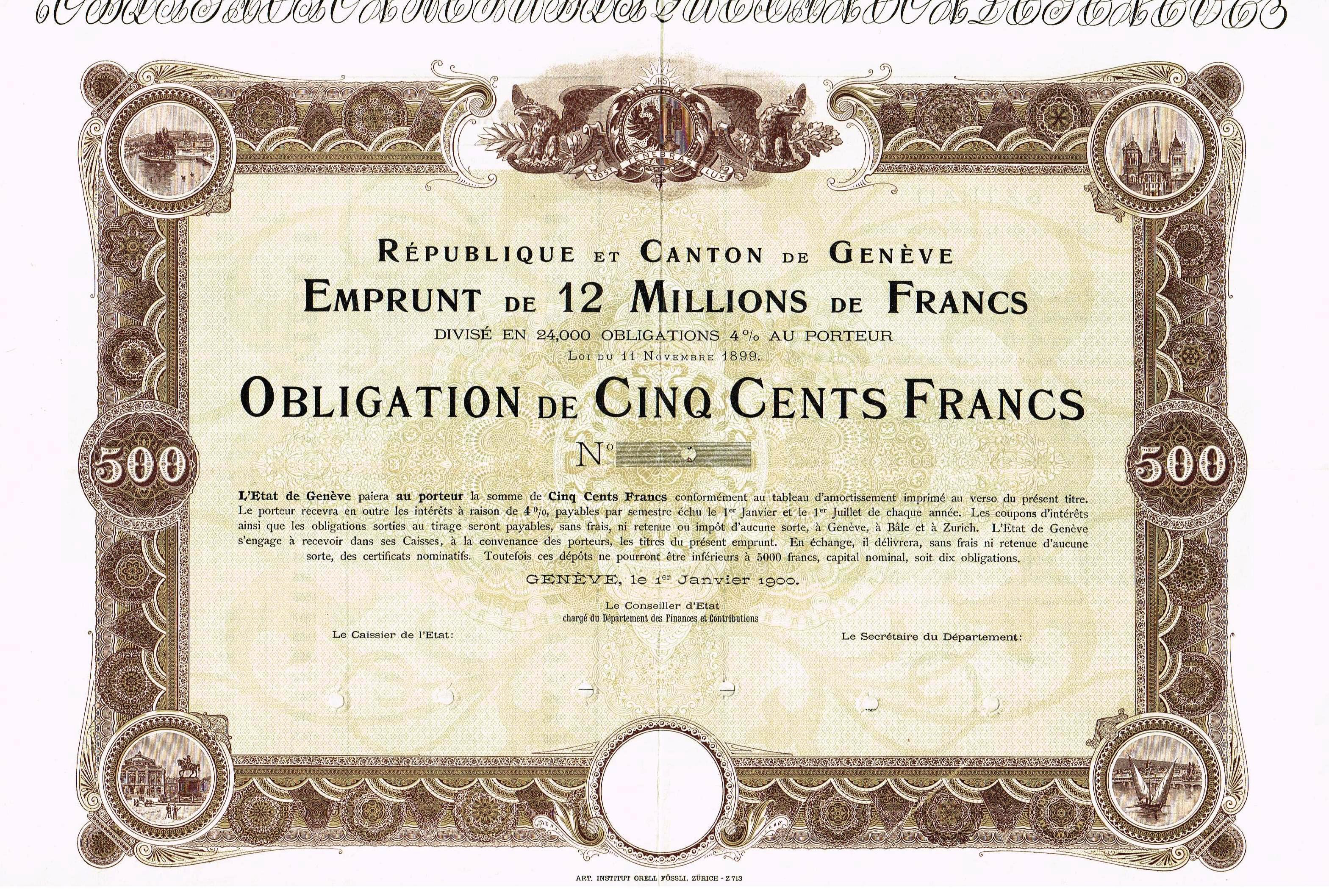 Bond of the République et Canton de Genève, issued 1. January 1900